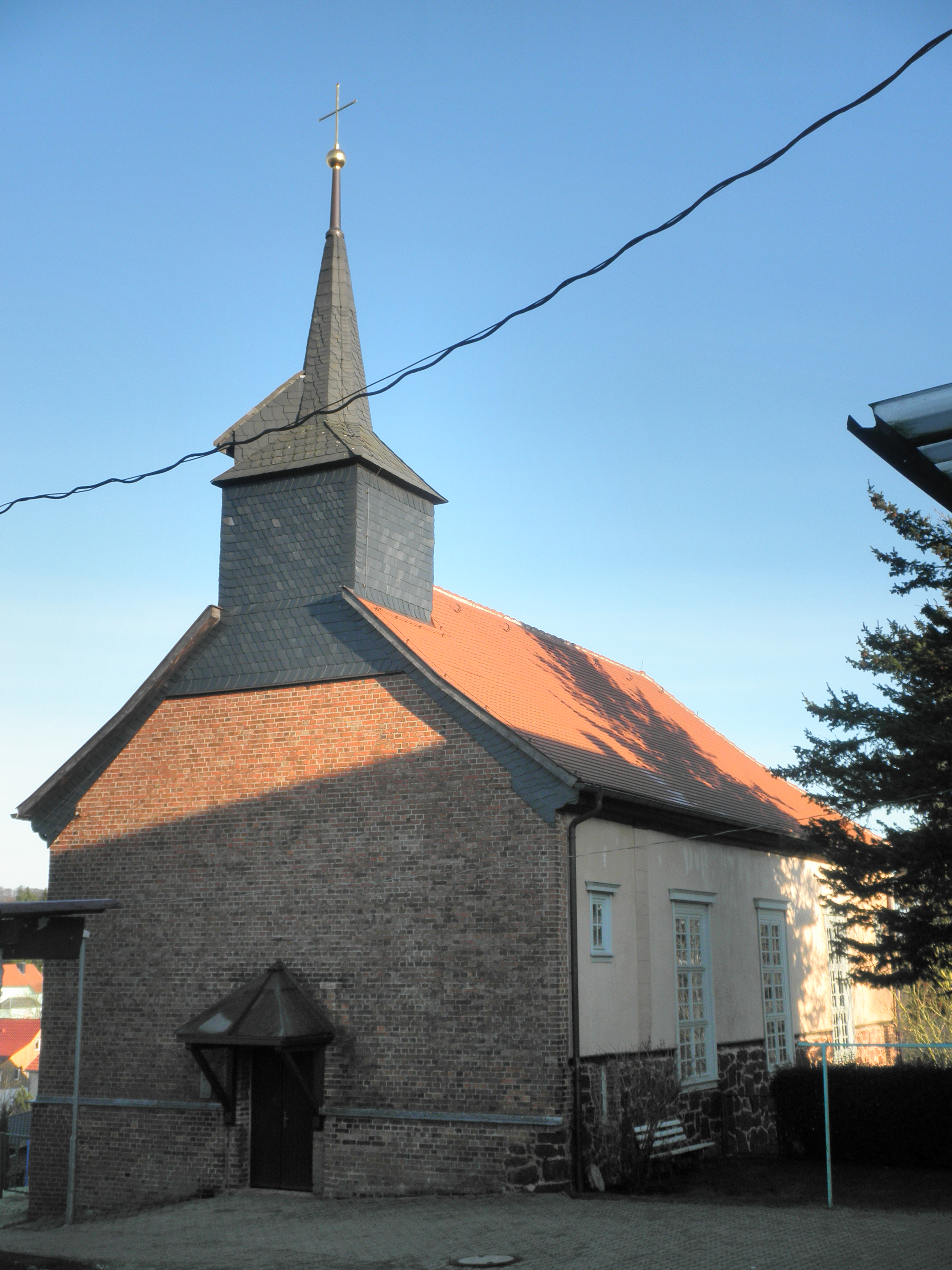 Church in Buchholz (Thüringen) in Thuringia